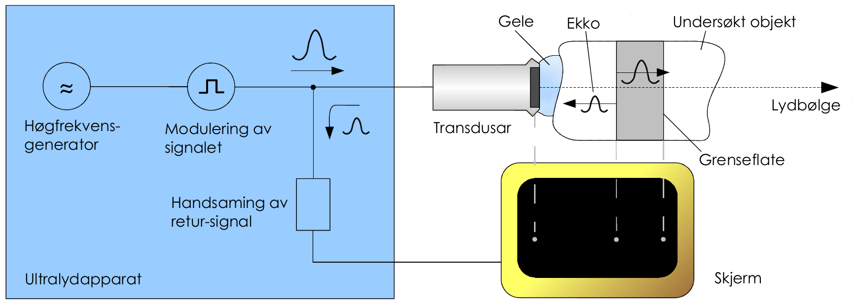 Sketch of ultrasound pulse, with norwegian text (by me) replacing original german